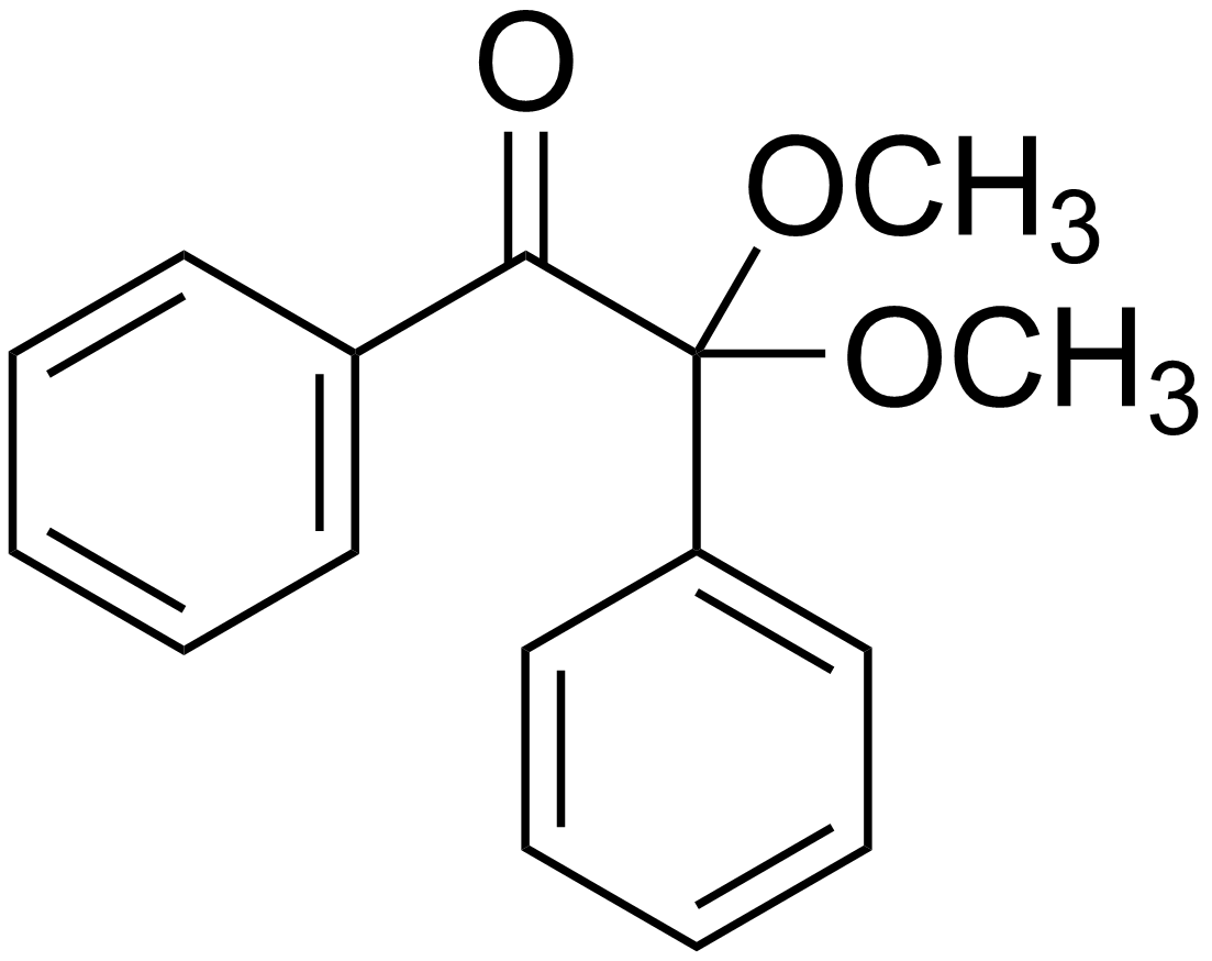 Chemical structure of 2,2-Dimethoxy-2-phenylacetophenone (DMPA)